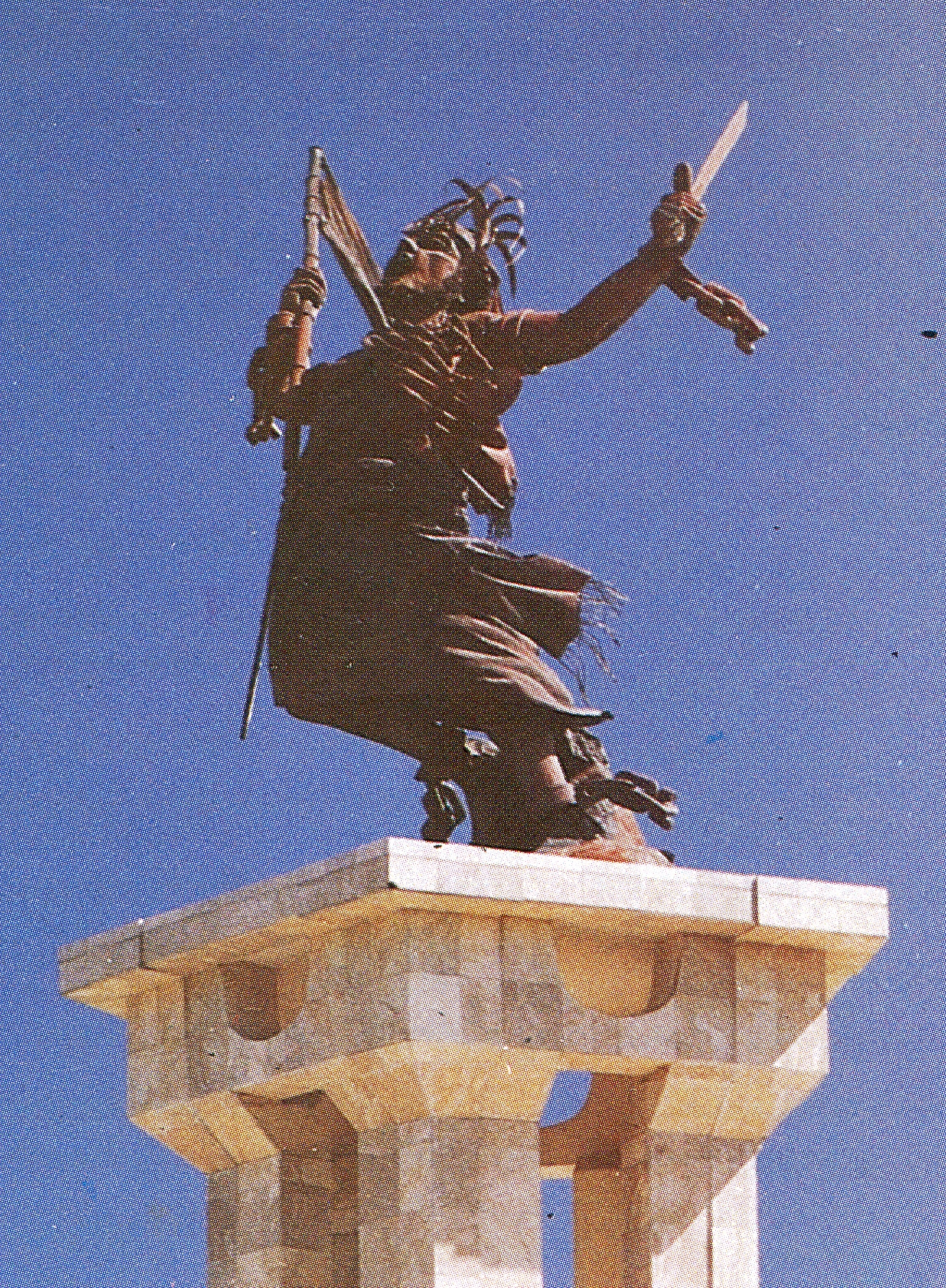 Integration monument donated to East Timor by Indonesia, Dili; remembering Dom Boaventura and the Rebellion of Manufahi (source)